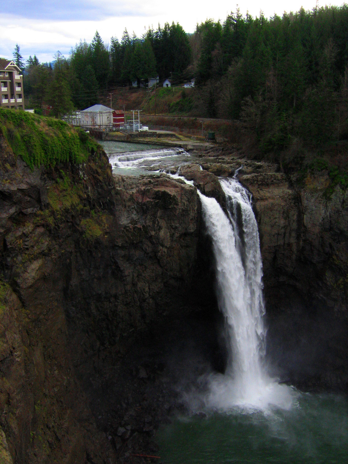 Snoqualmie Falls in January 2005.